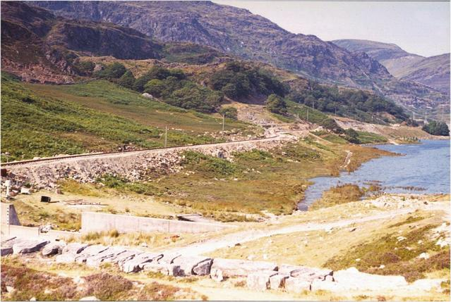 Construction of the Ffestiniog Railway deviation around Tanygrisiau Reservoir.